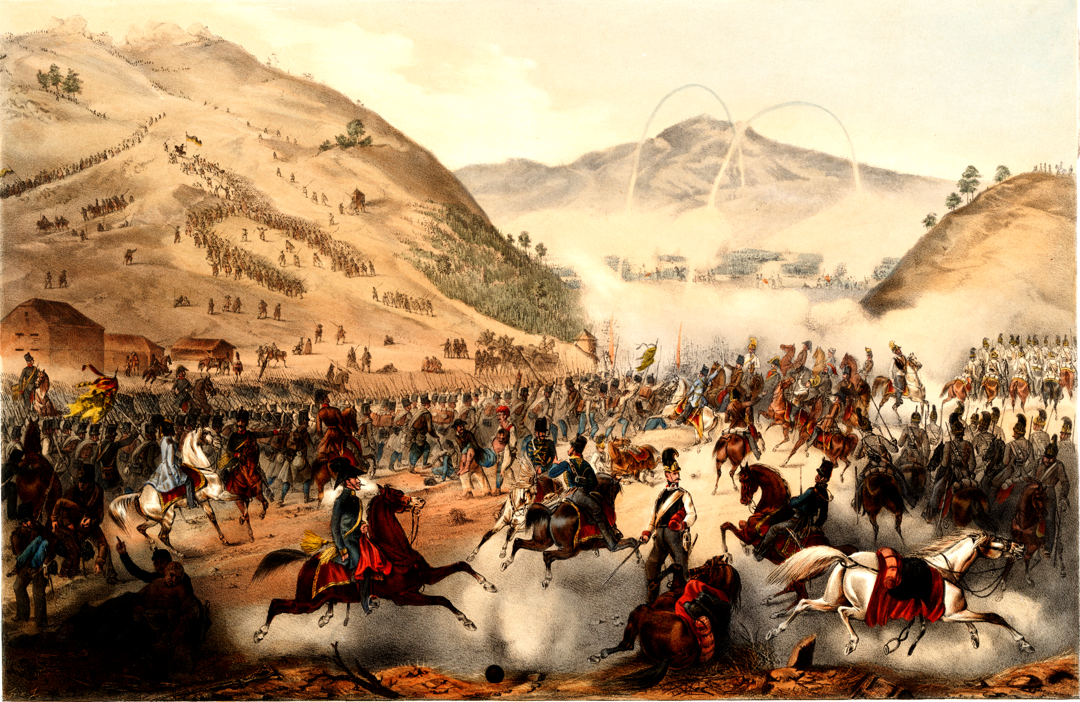 Battle of Pákozdi